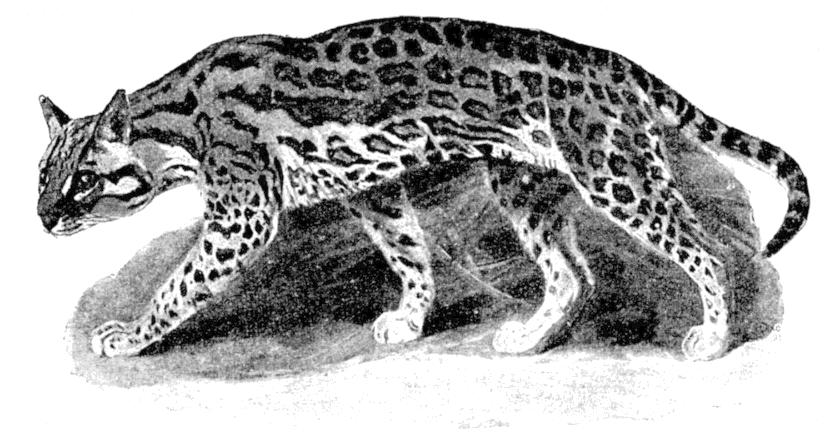 Fig. 198.—Ocelot. Felis pardalis. × 1⁄10. Now referred for genus Leopardus.